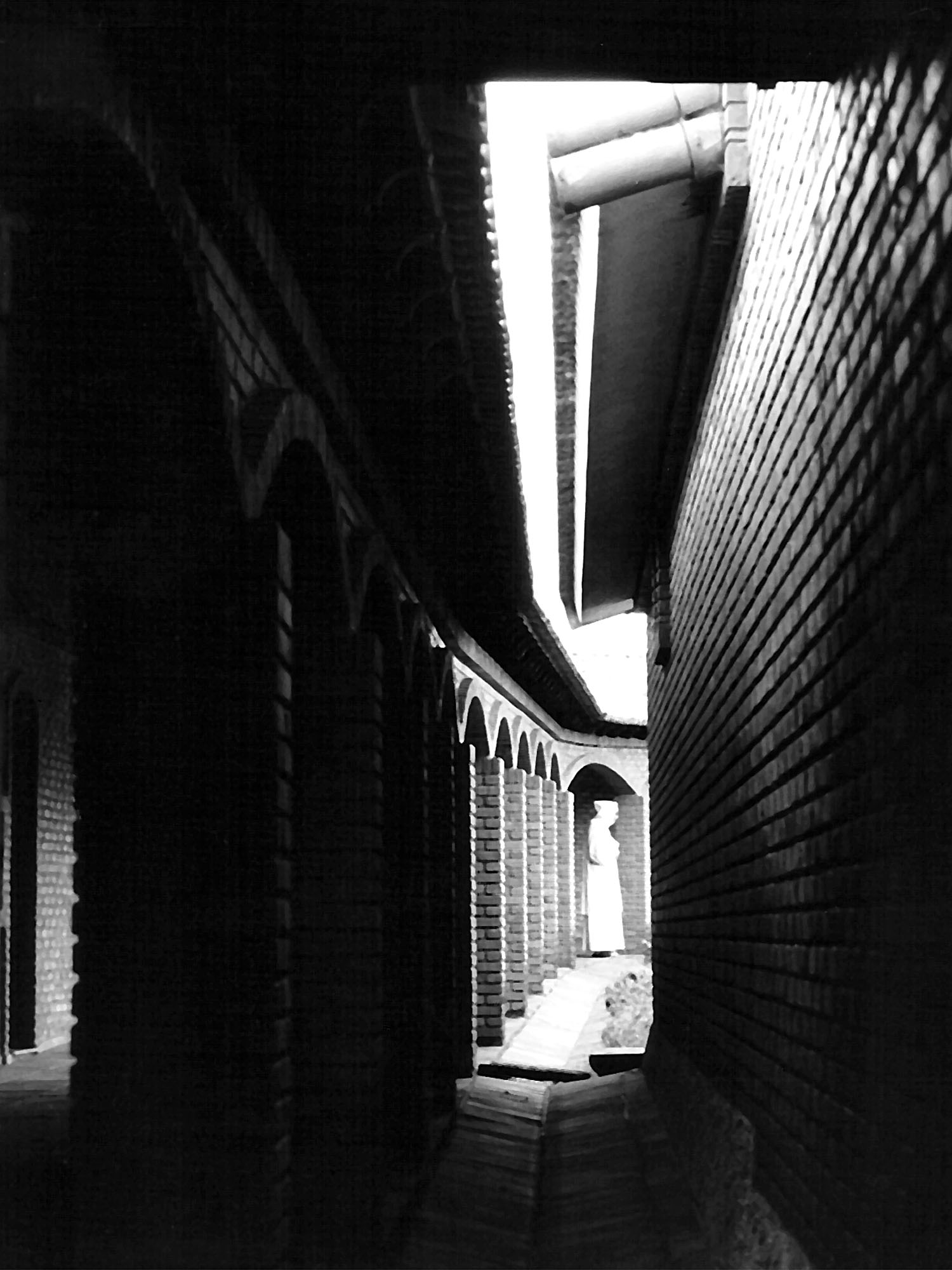 Chatreuse-N.Sra.Medianeira-Ivora-RS-Brazil-Claustrum1